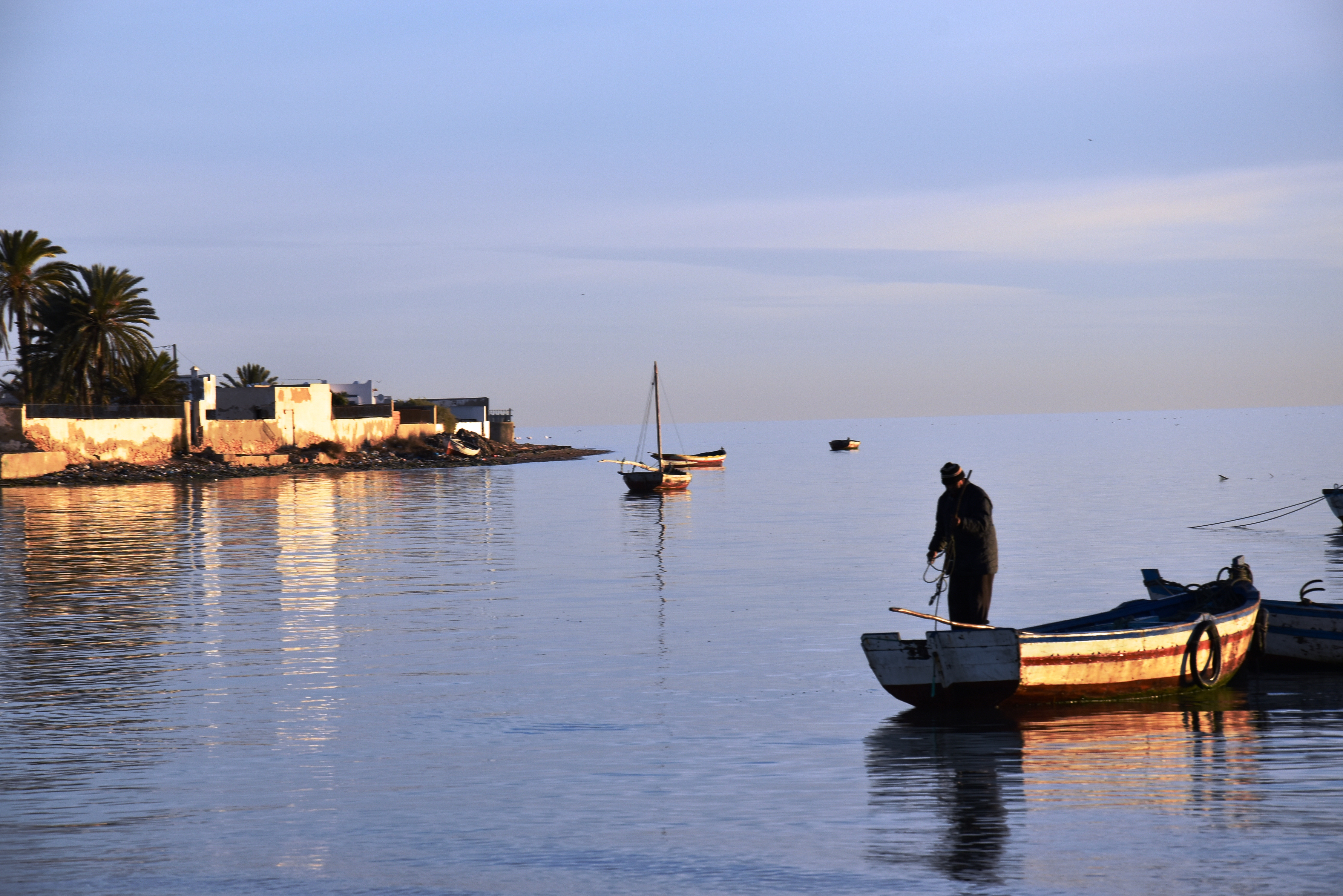 This is an image with the theme "Africa on the Move or Transport" from: Tunisia